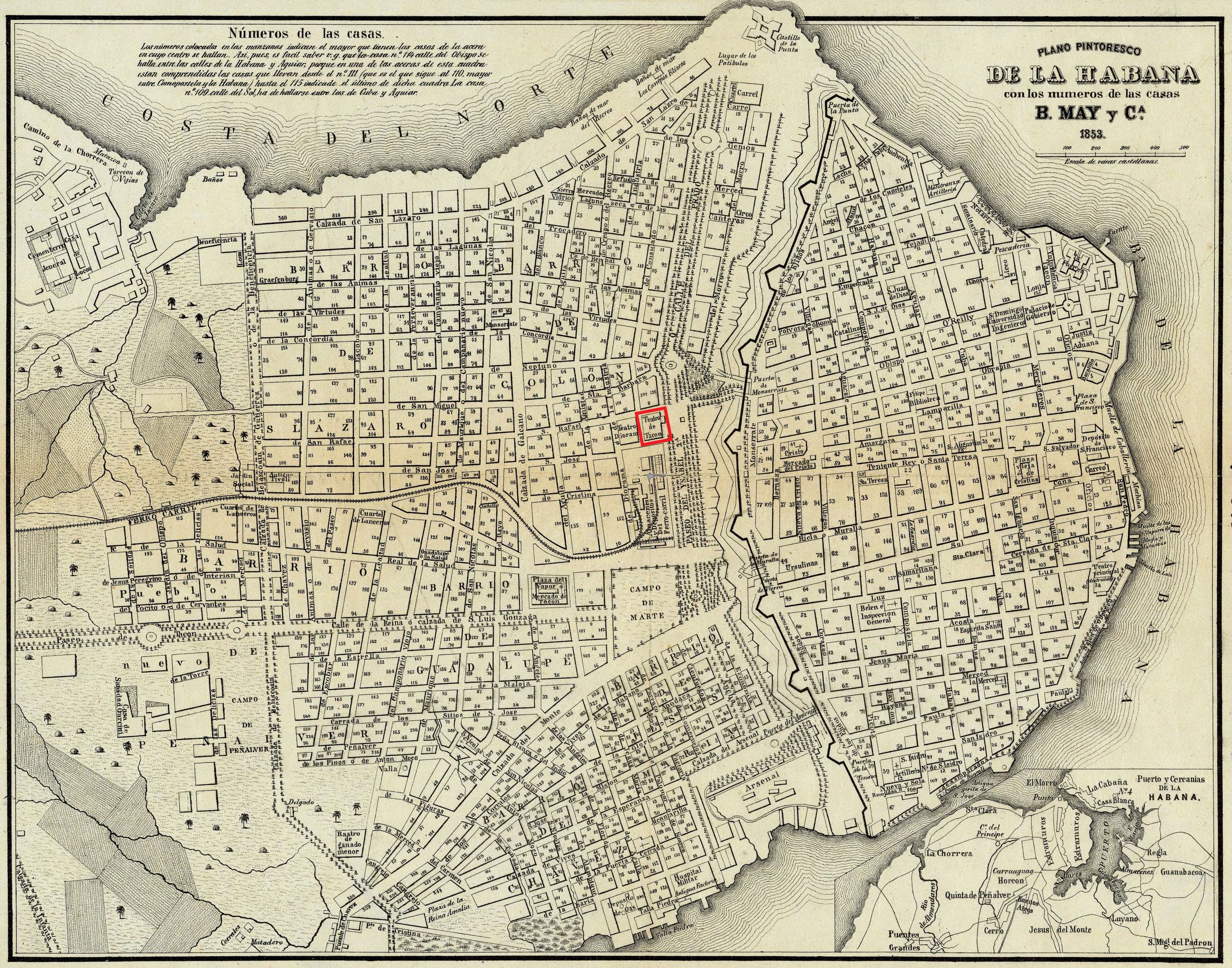 Teatro Tacon in 1853 Map of Havana, Cuba